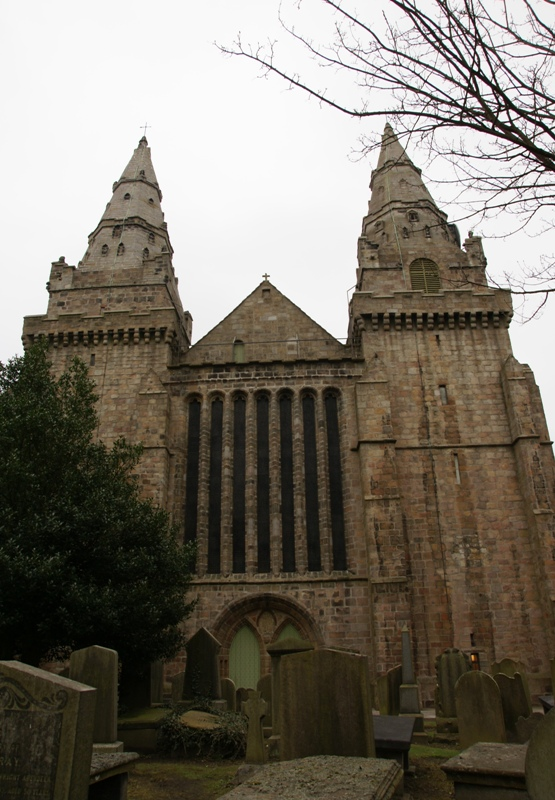 St Machar's Cathedral, Aberdeen, Scotland